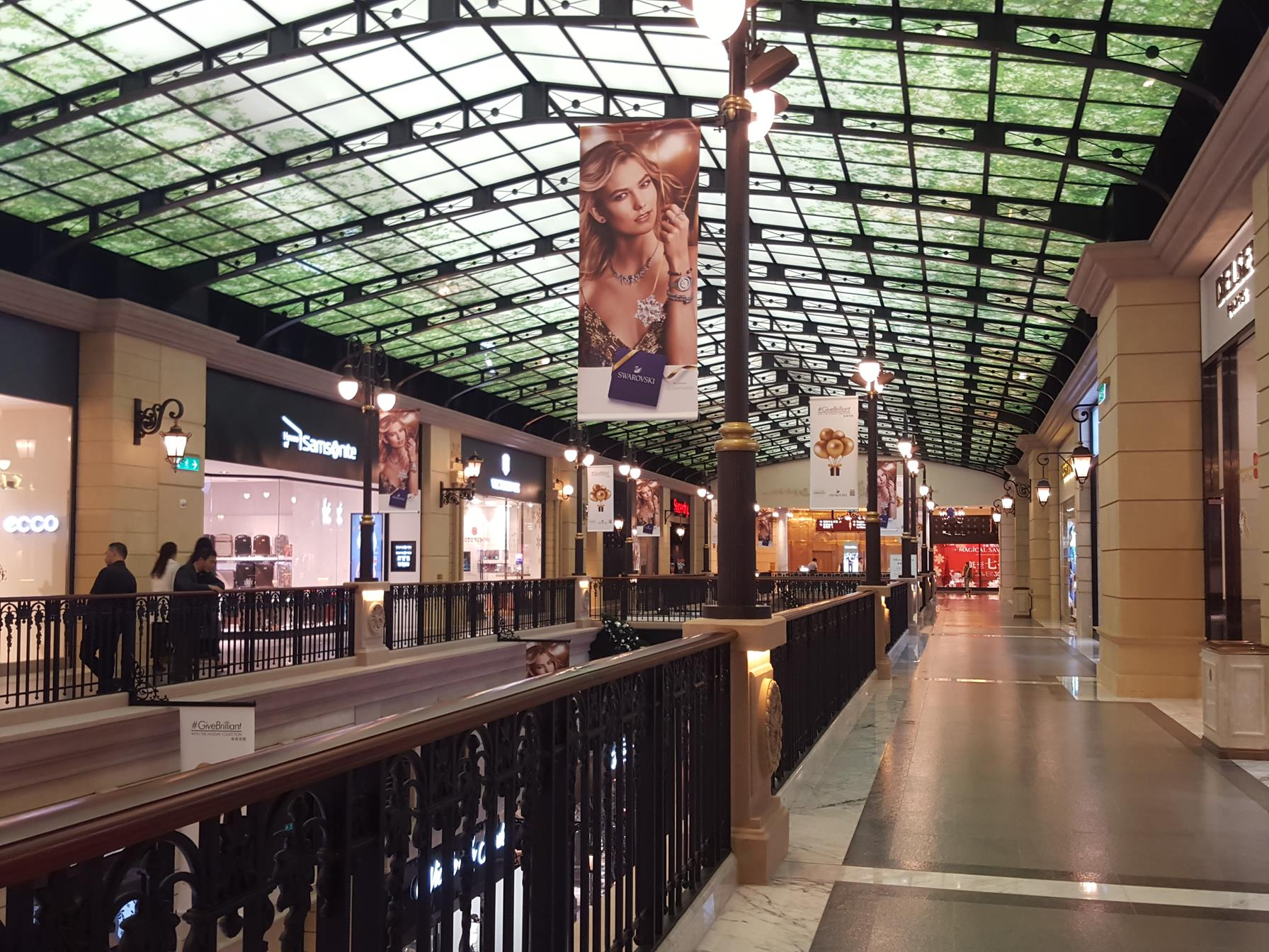 Shopping Mall at The Parisian